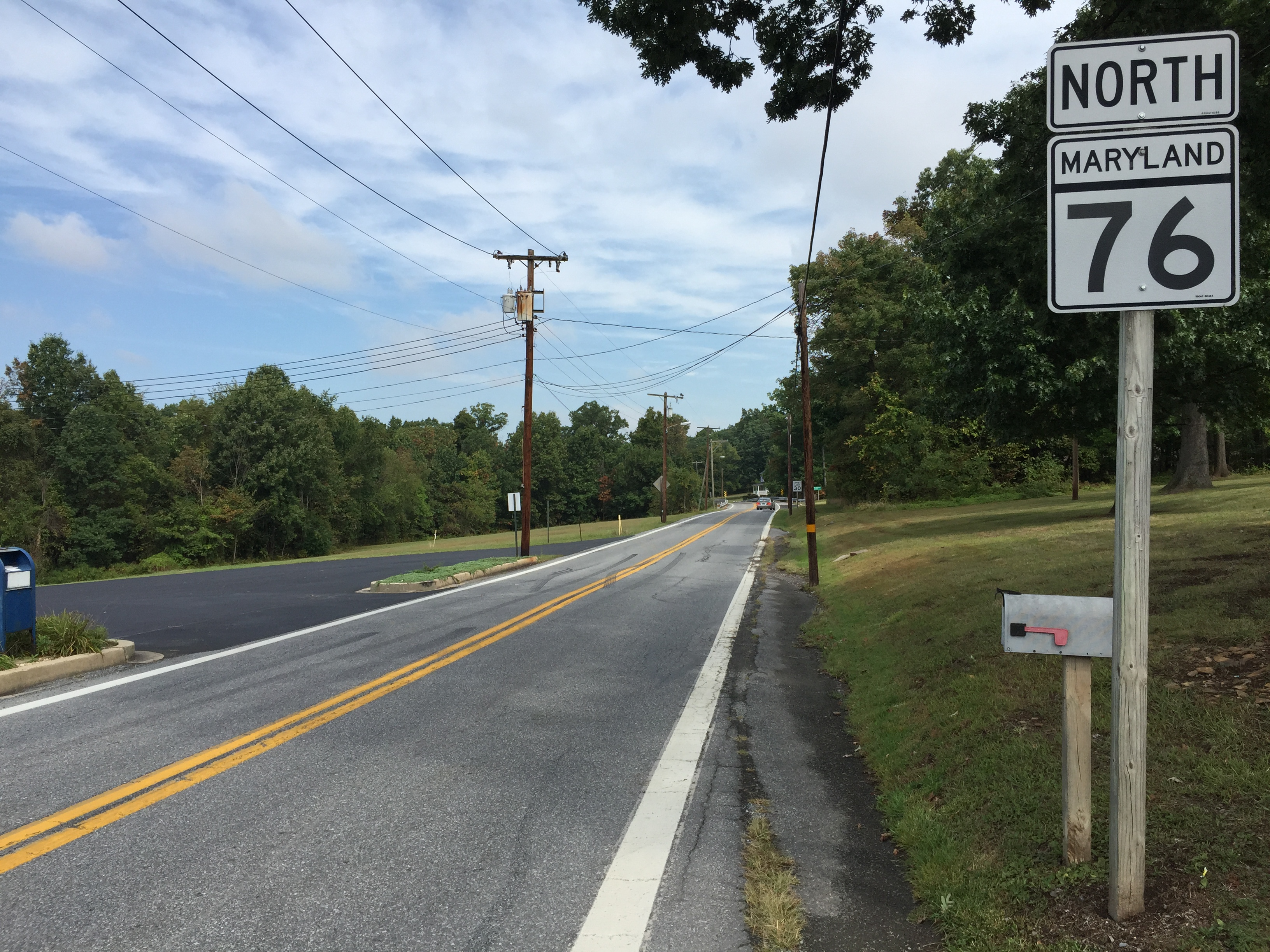 View north along Maryland State Route 76 (Motters Station Road) just north of Maryland State Route 77 (Rocky Ridge Road) in Rocky Ridge, Frederick County, Maryland